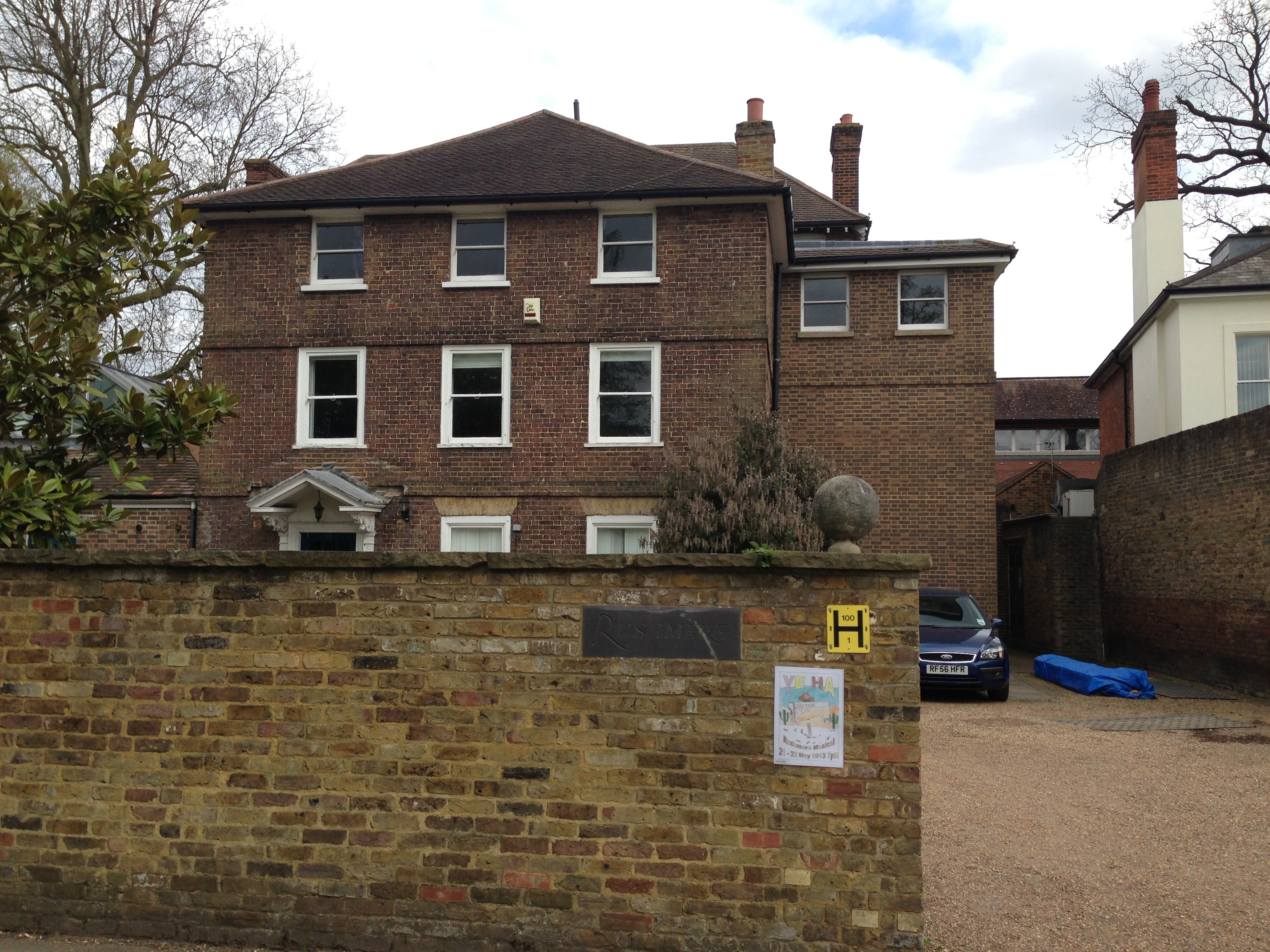 Years 3 & 4